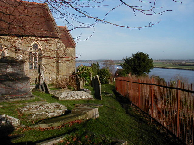 St Peters Church, Newnham, near to Newnham, Gloucestershire, Great Britain. Beautifully situated by the River Severn